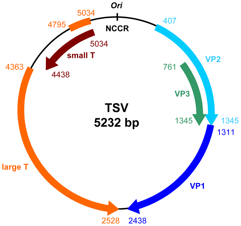 Schematic of the circular viral DNA genome of the trichodysplasia spinulosa polyomavirus (TSPyV) showing locations of genes and the non-coding control region (NCCR) and origin of replication (Ori). Figure 3 from the following paper: van der Meijden E, Janssens RWA, Lauber C, Bouwes Bavinck JN, Gorbalenya AE, et al. (2010) Discovery of a New Human Polyomavirus Associated with Trichodysplasia Spinulosa in an Immunocompromized Patient. PLoS Pathog 6(7): e1001024.